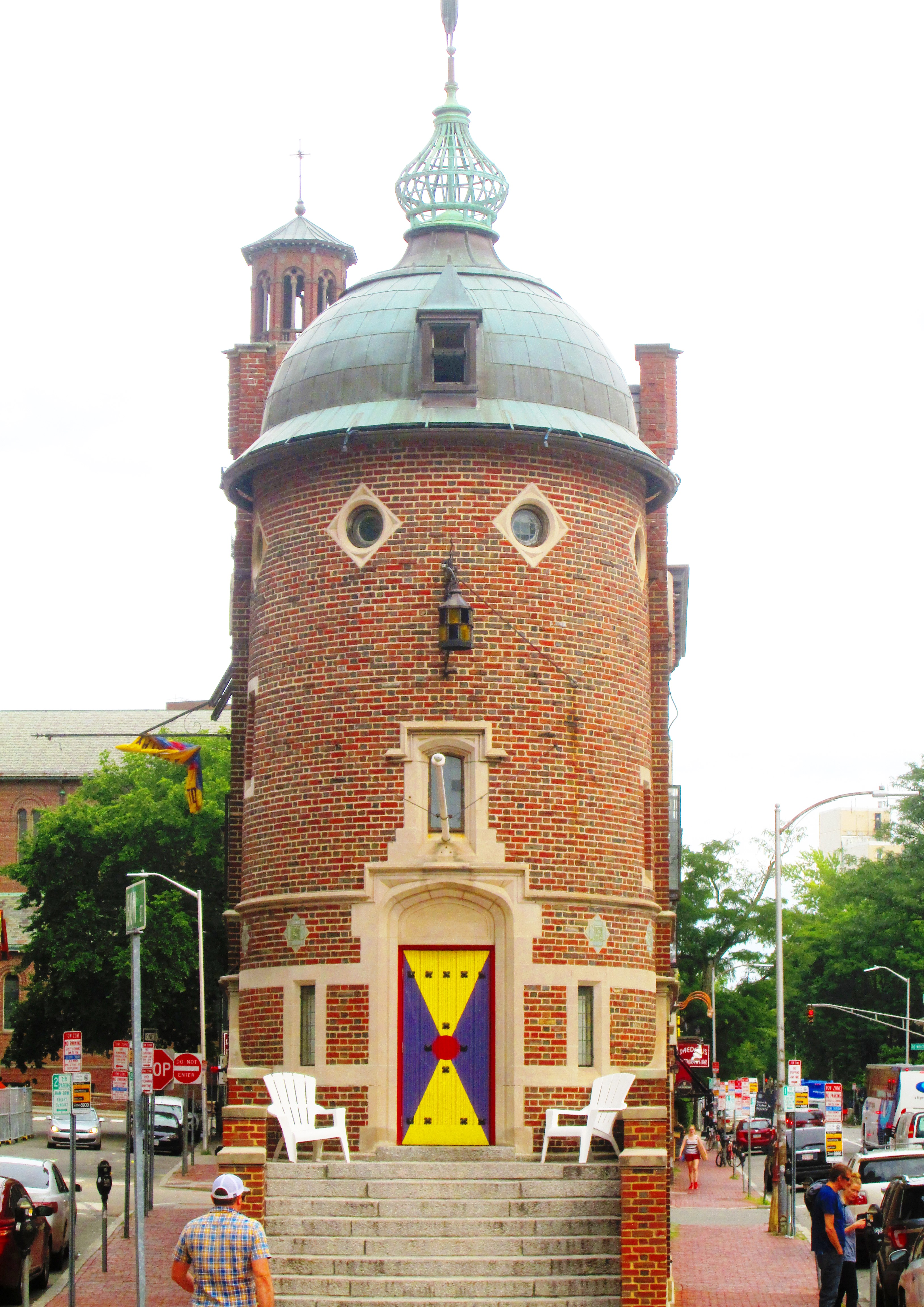 The Harvard Lampoon Building, also known as the Lampoon Castle, is a historic building located at 44 Bow Street between Plympton, Linden, and Mount Auburn Streets in Cambridge, Massachusetts. It is best known as the home of The Harvard Lampoon and for its unusual Mock Flemish design by Edward M. Wheelwright. It was constructed in 1909 and was added to the National Register of Historic Places in 1978.